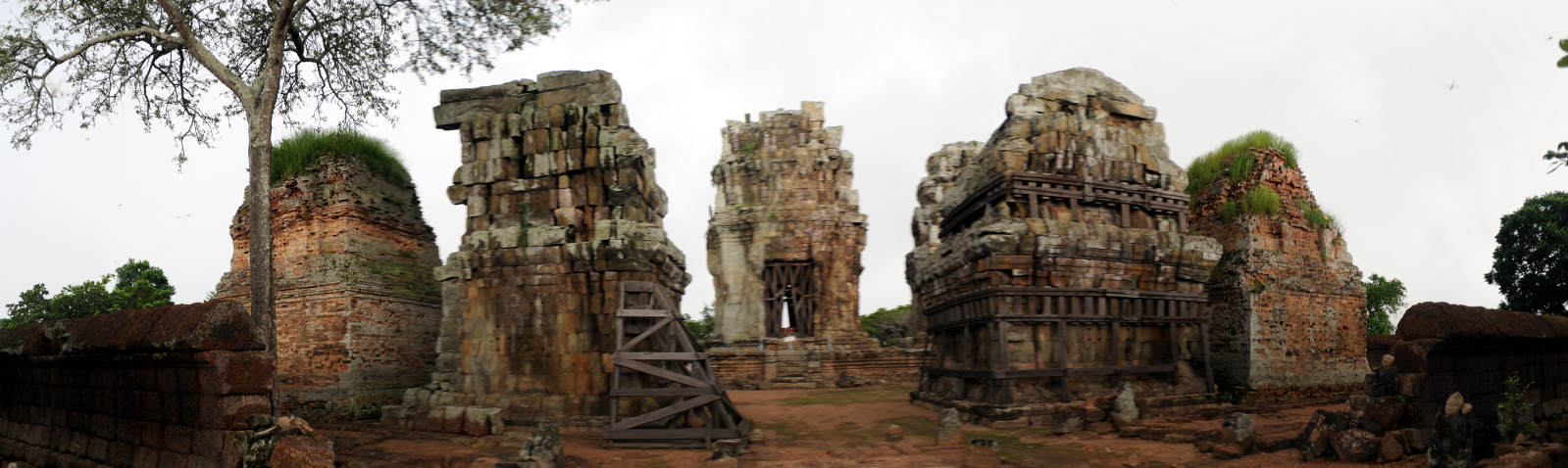 Entrance view of the Angkor temple Phnom Krom